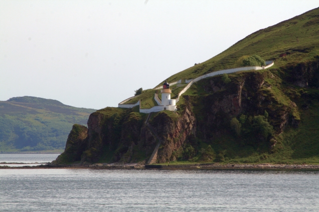 McArthur's Head Lighthouse (1) Situated above the entrance to the Sound of Islay and built in 1861 (David and Thomas Stevenson), automated 1969.